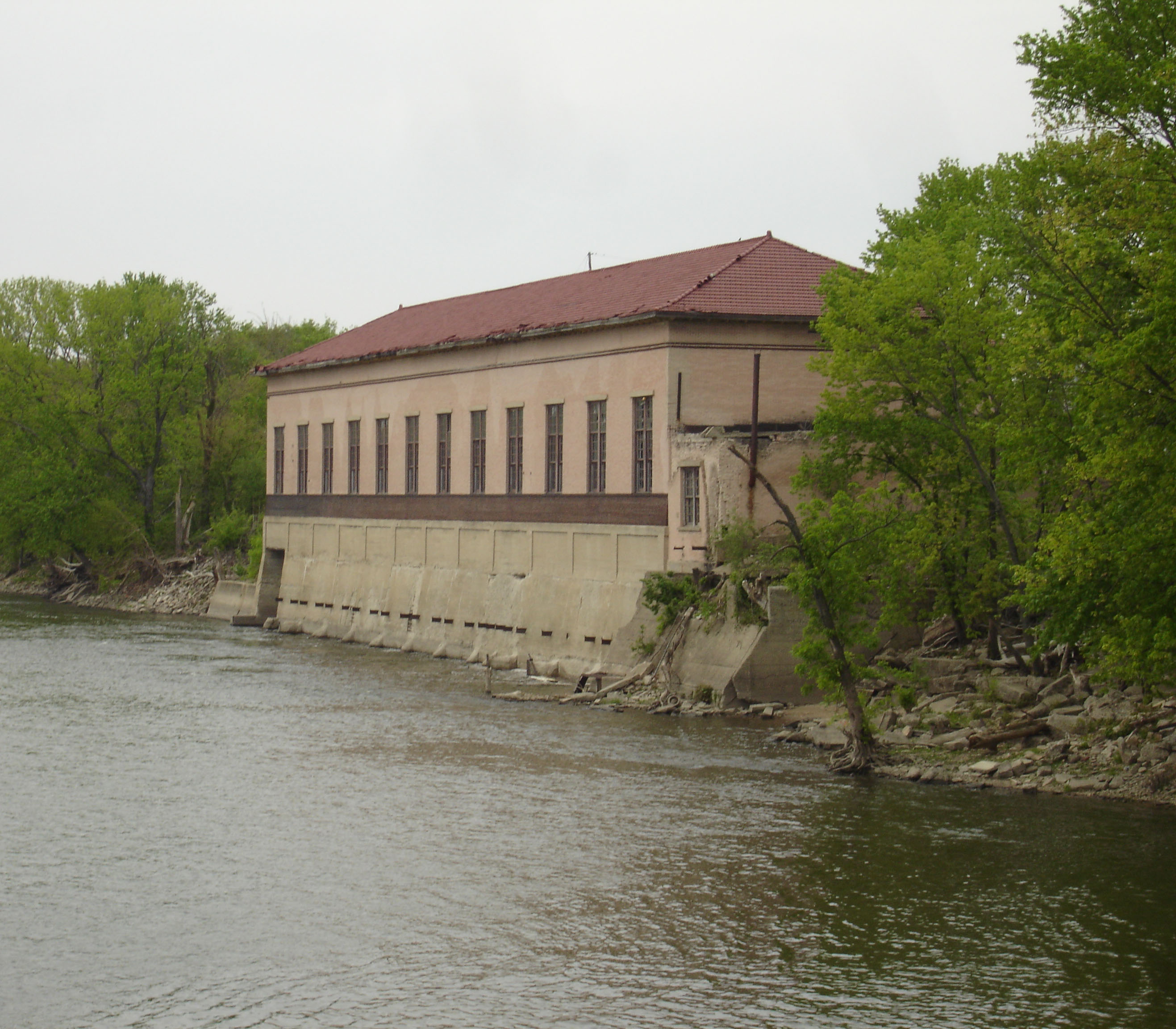 Marseilles Hydro-electric Power Station (Marseilles Hydro Plant) along the Illinois River in Marseilles, Illinois, USA.